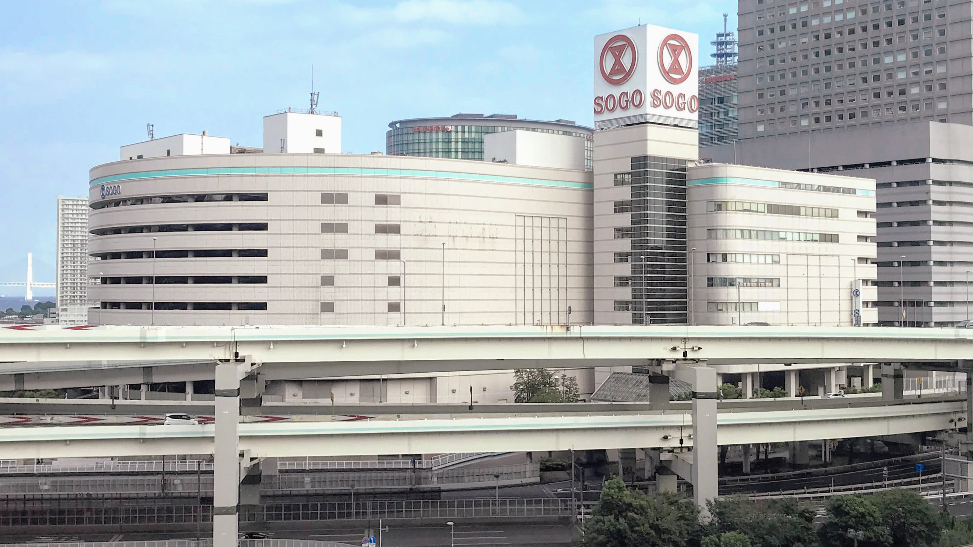 Yokohama Shintoshi building seen from the west side of Yokohama station.